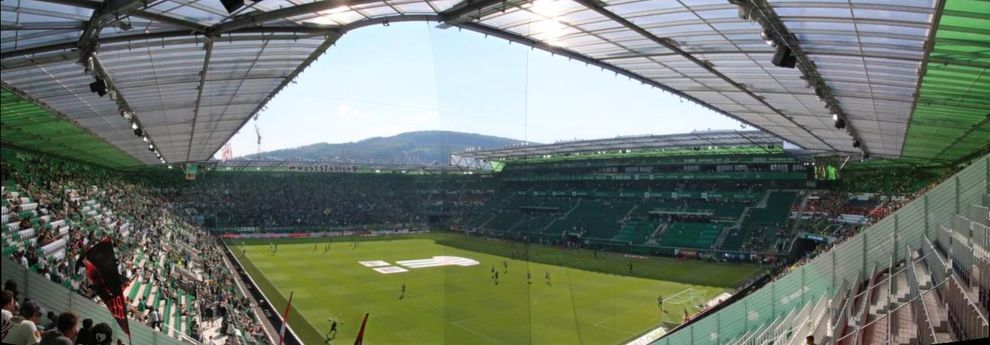 Austrian Bundesliga league match